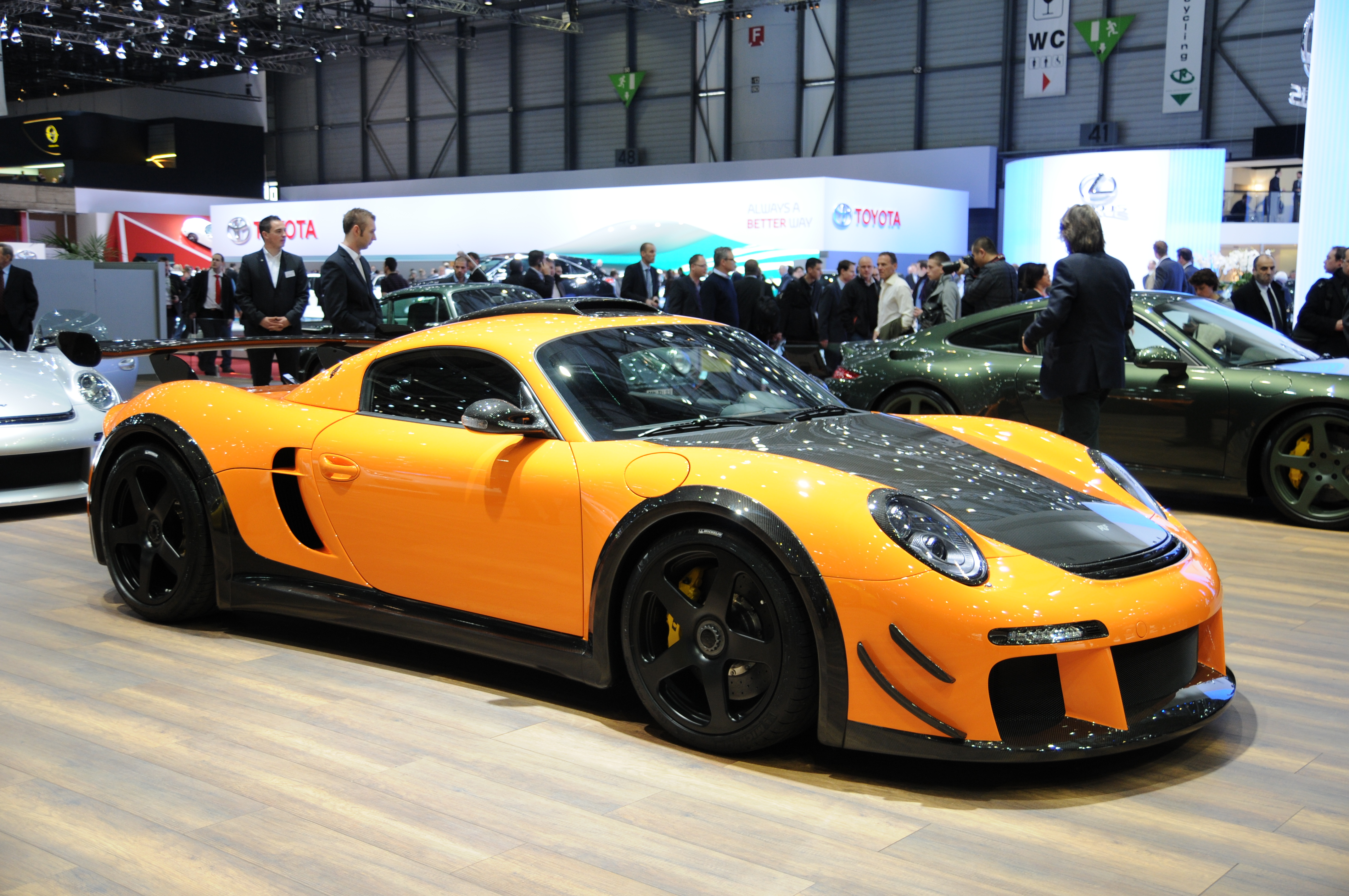 Geneva Motor Show 2012 (photos taken on the second press day)